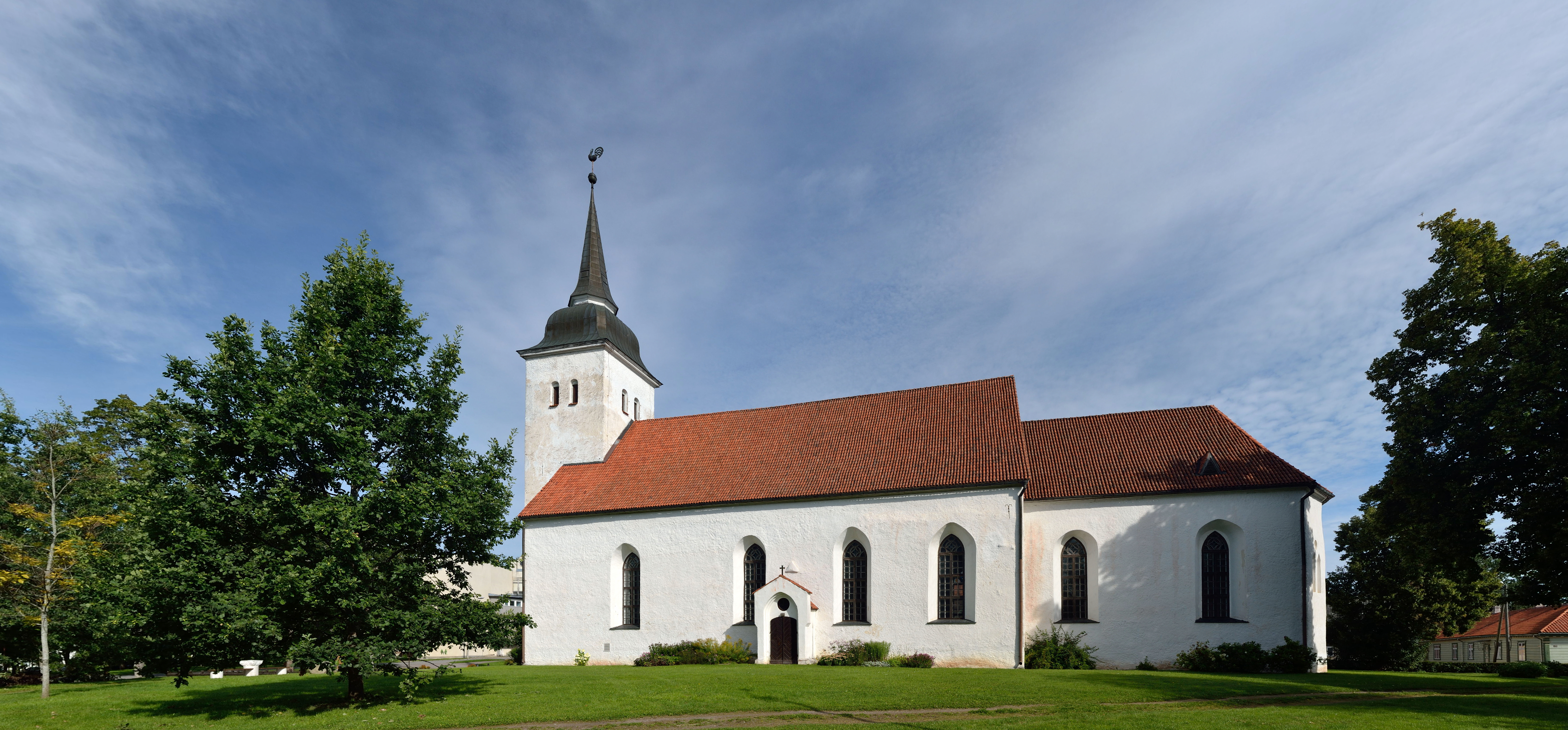 St. John's Church in Viljandi